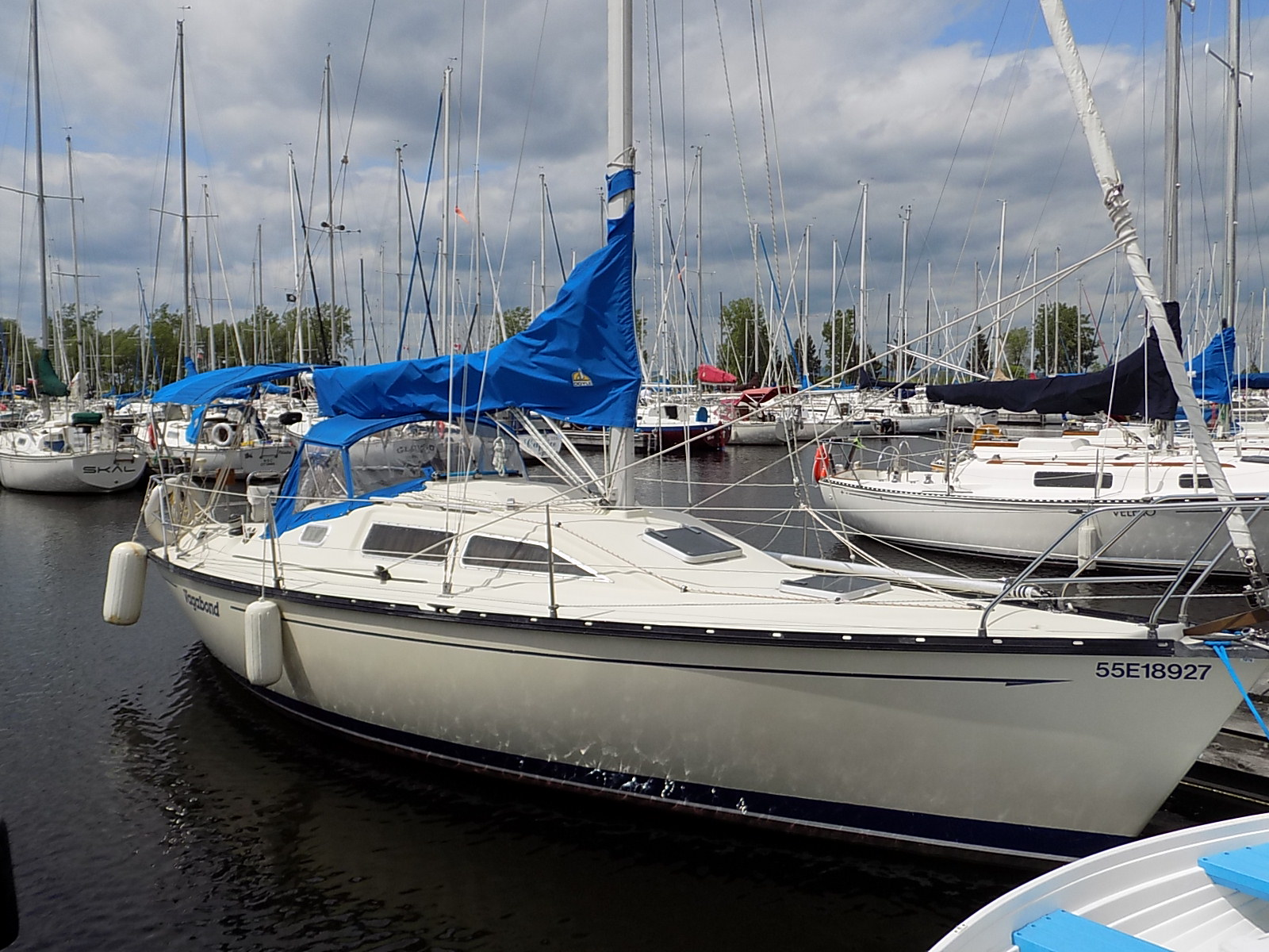 A Mirage 29 sailboat named Vagabond.